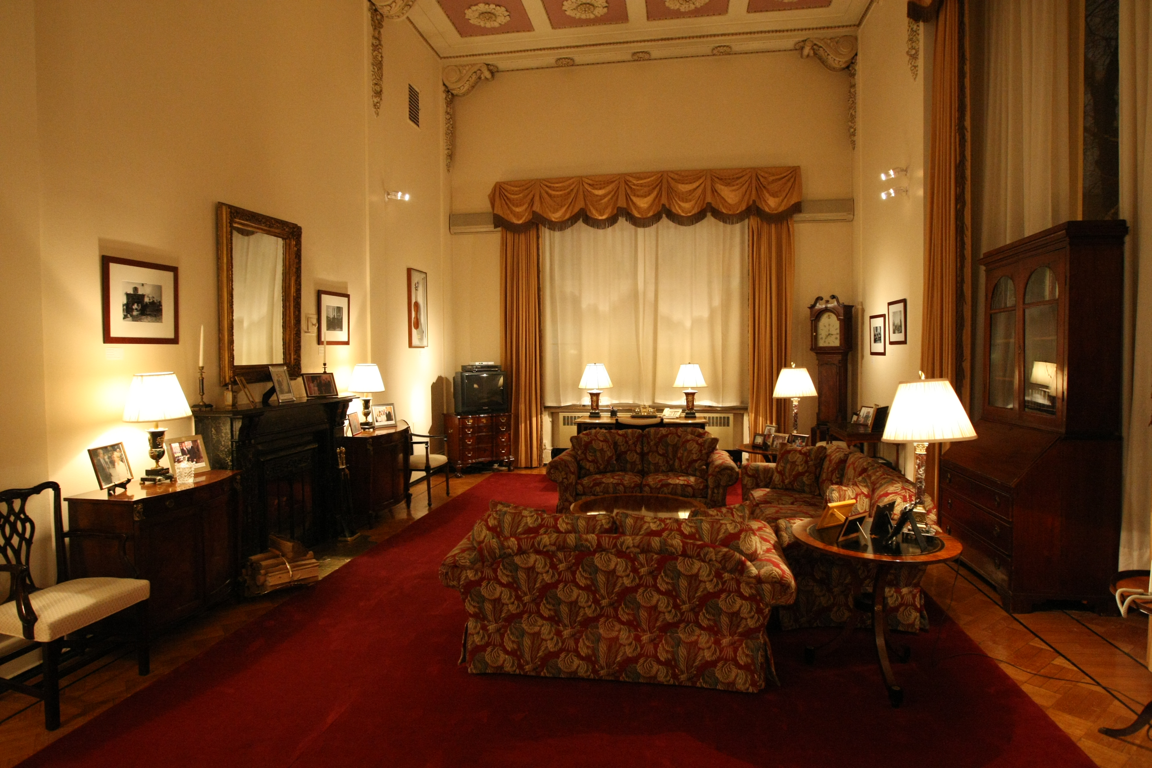 The library of Spaso House, residence of the U.S. Ambassador to the Russian Federation in Moscow.